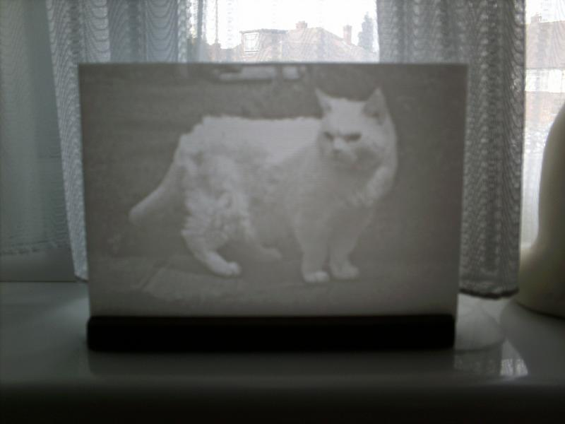 TWEAKIE my CNC machine under construction is at